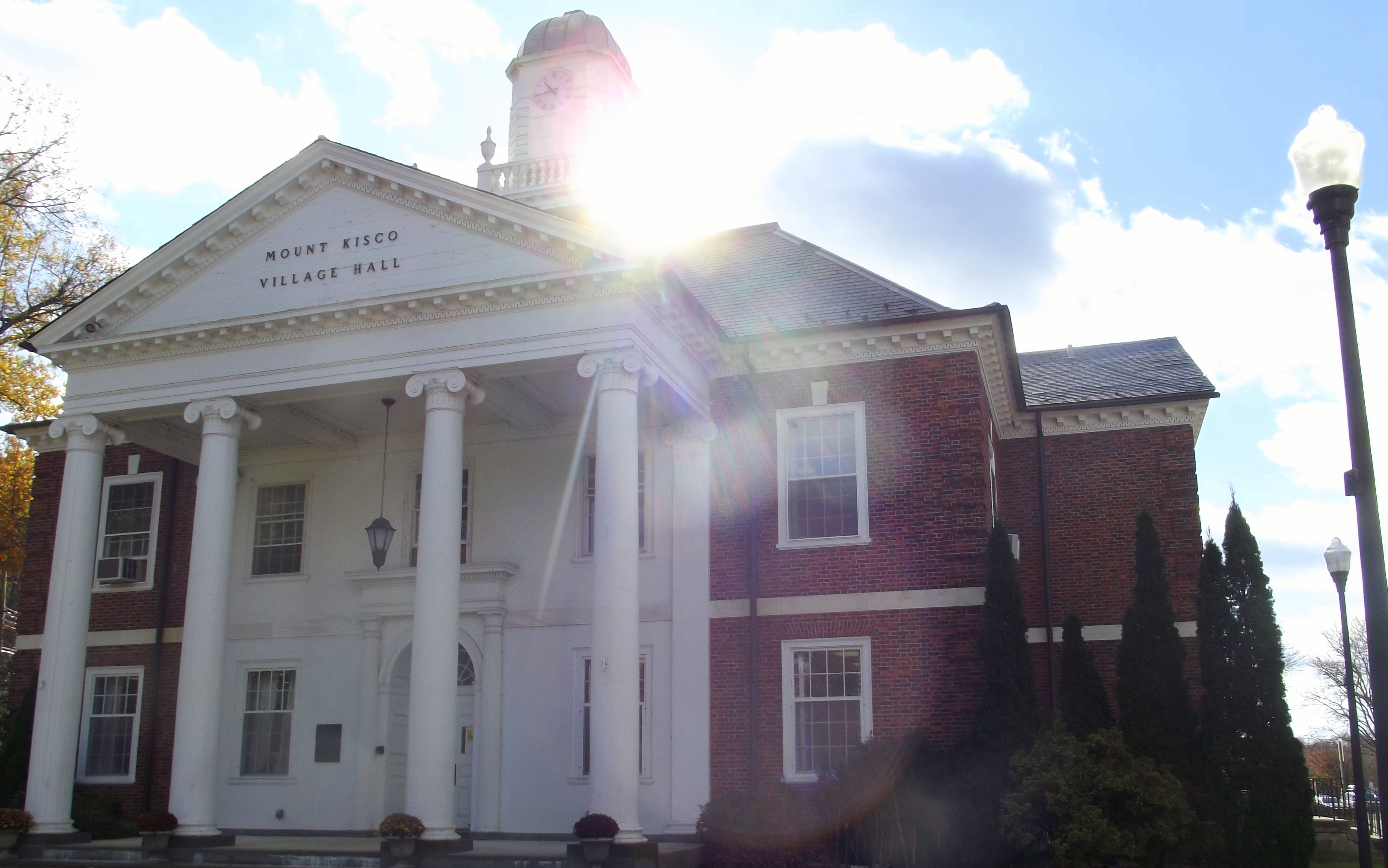 A shot of Mount Kisco Village Hall with sun flare.